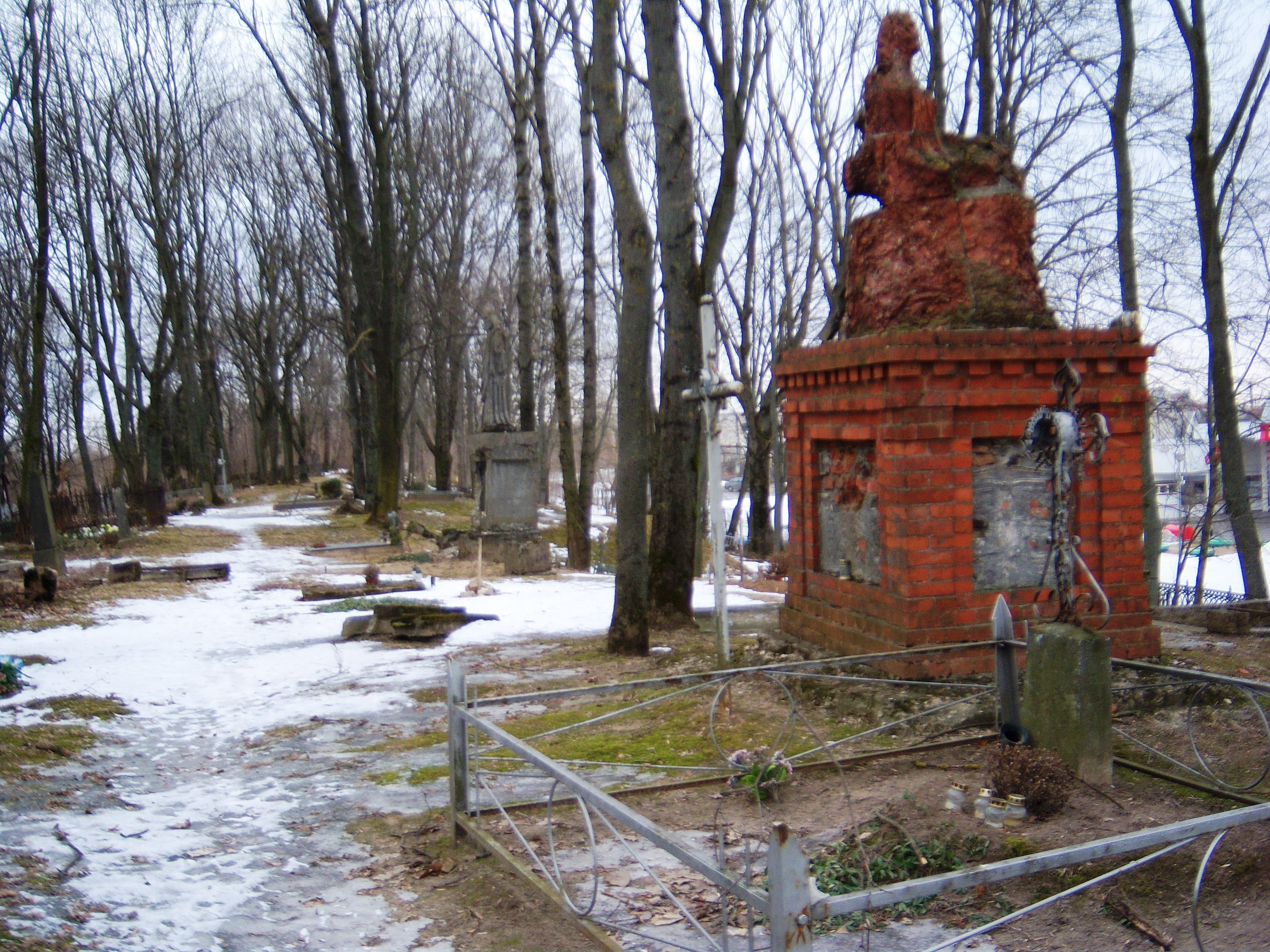 Old Aleksotas cemetery, remains of the tomb monument. Kaunas, Lithuania